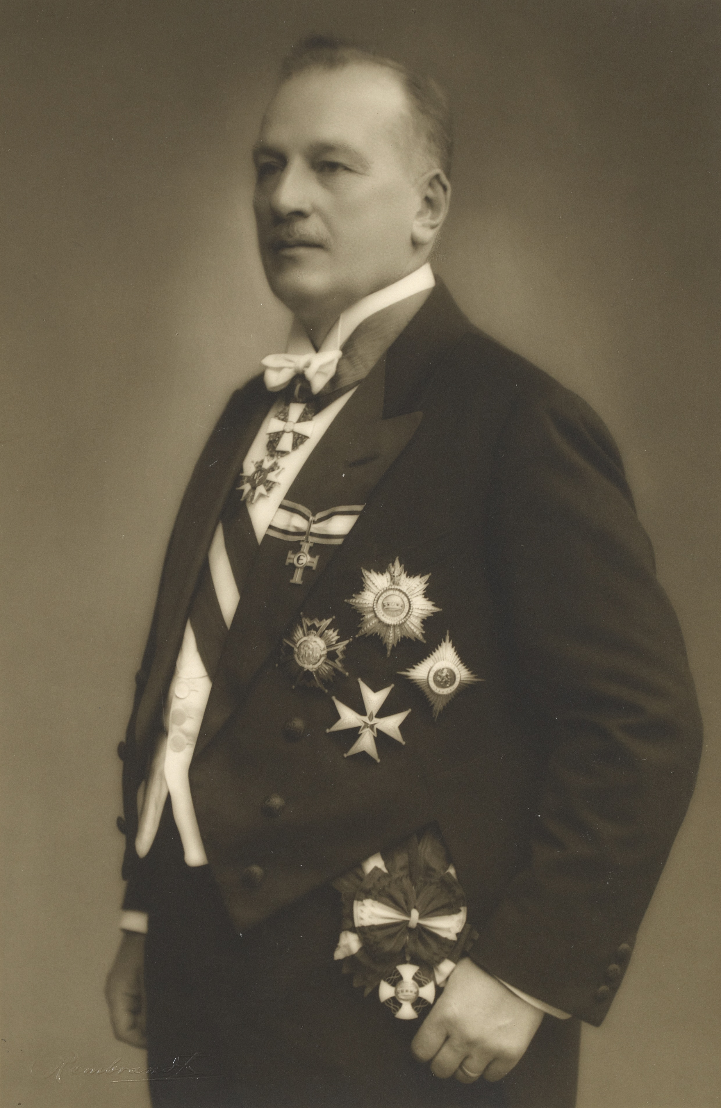 Photograph of the Finnish diplomat Pontus Artti (1878–1936).